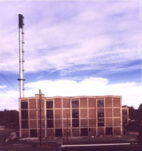 Casula Powerhouse